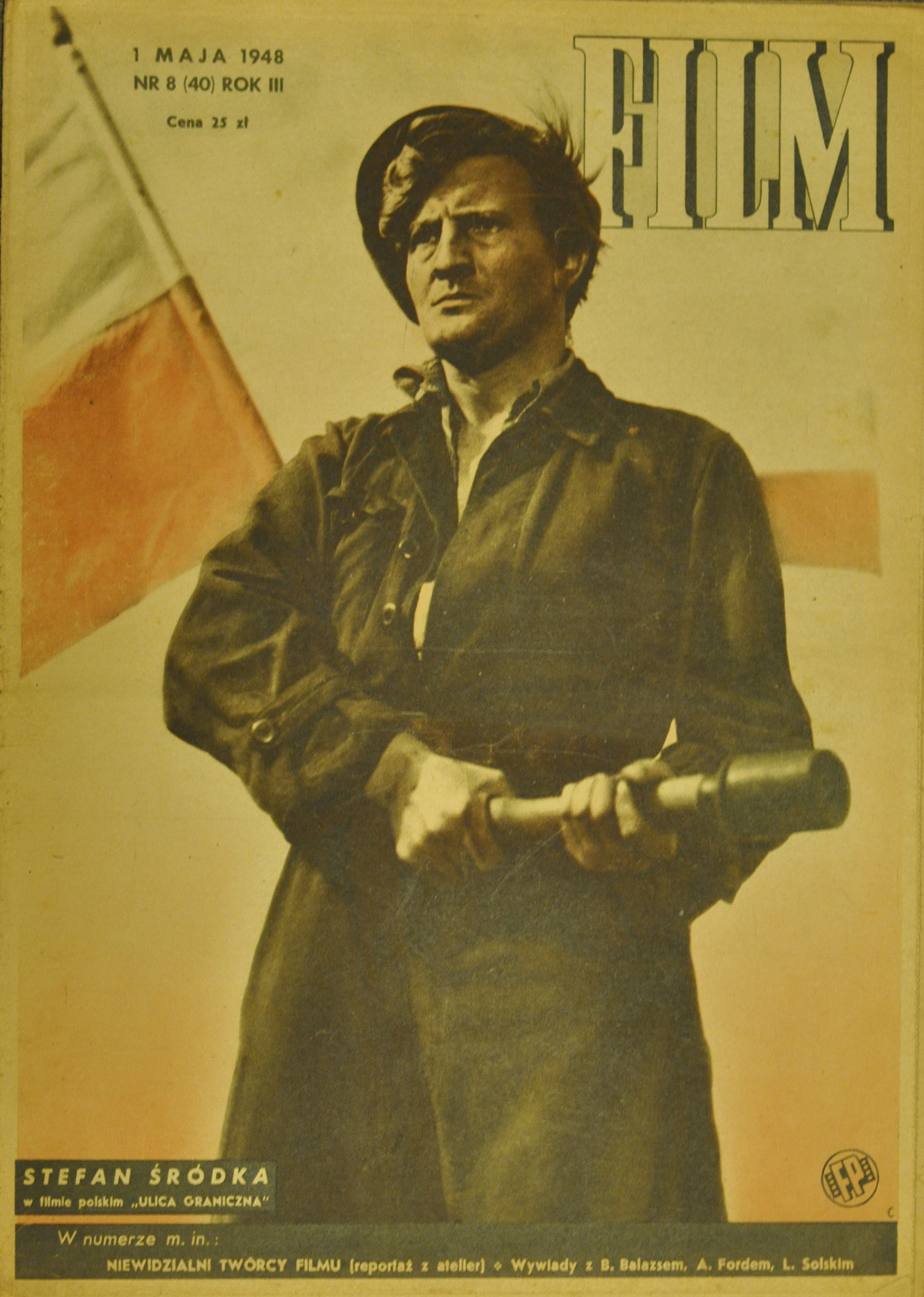 Front cover of Polish magazine Film Nr. 40 with Stefan Śródka